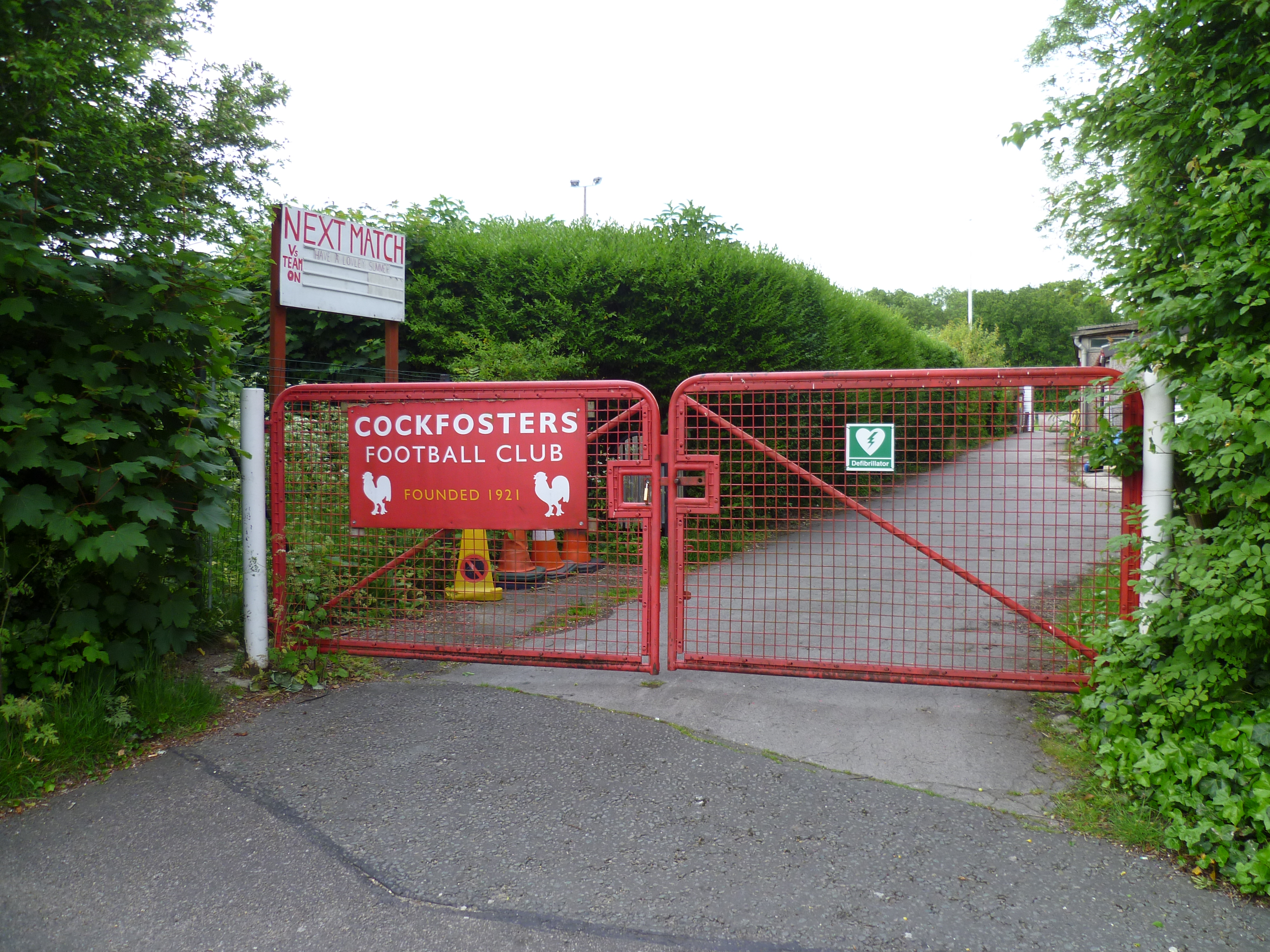 Cockfosters